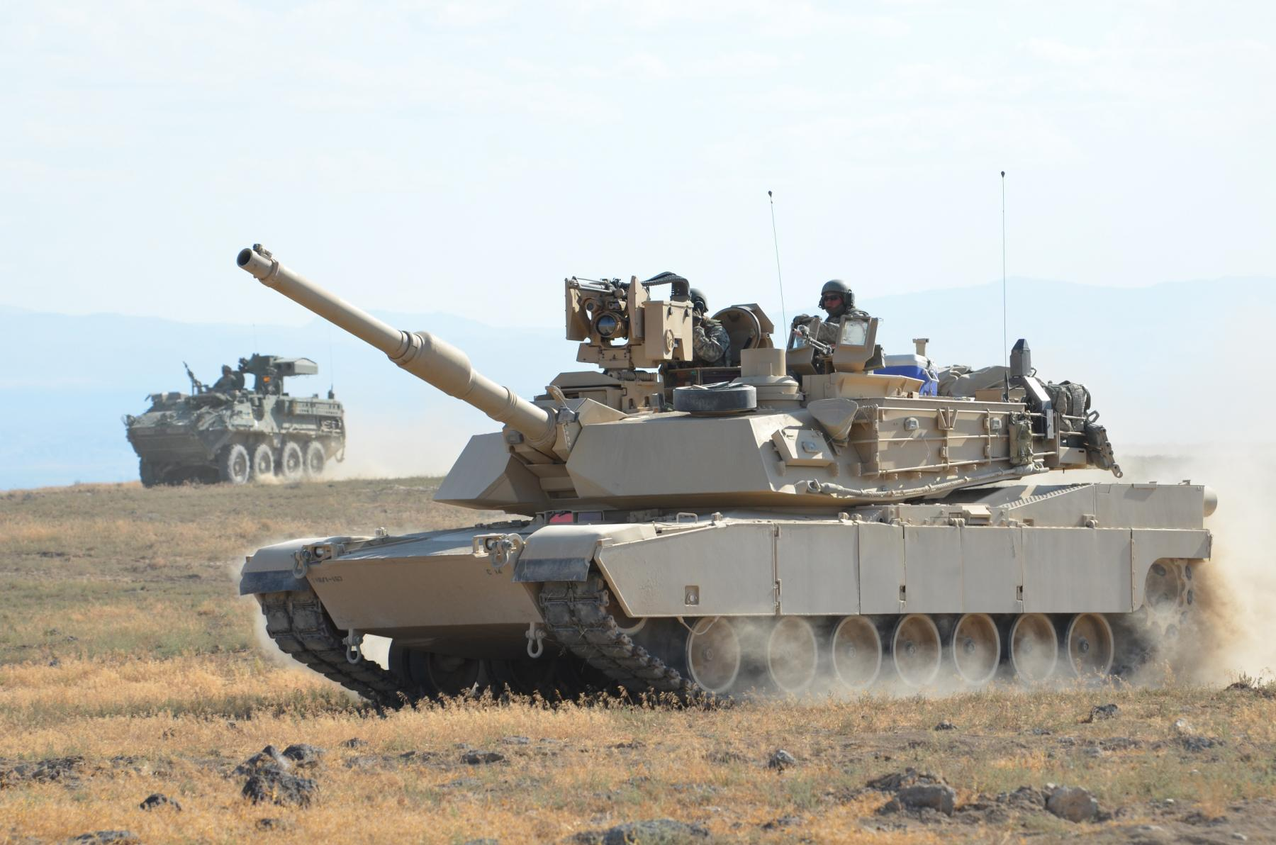 Boise, ID - An M1A2 SEP Abrams from 116th Cavalry Brigade Combat Team, Idaho Army National Guard (middle) and a M1134 Anti-Tank Guided Missile Vehicle from 1st Squadron, 14th Infantry Regiment, 3rd Stryker Brigade Combat Team, Joint Base Lewis-McChord, Washington, return from waging mock battle against one another during an eXportable Combat Training Capability exercise, at Orchard Combat Training Center, south of Boise, Idaho, Aug. 14, 2014.